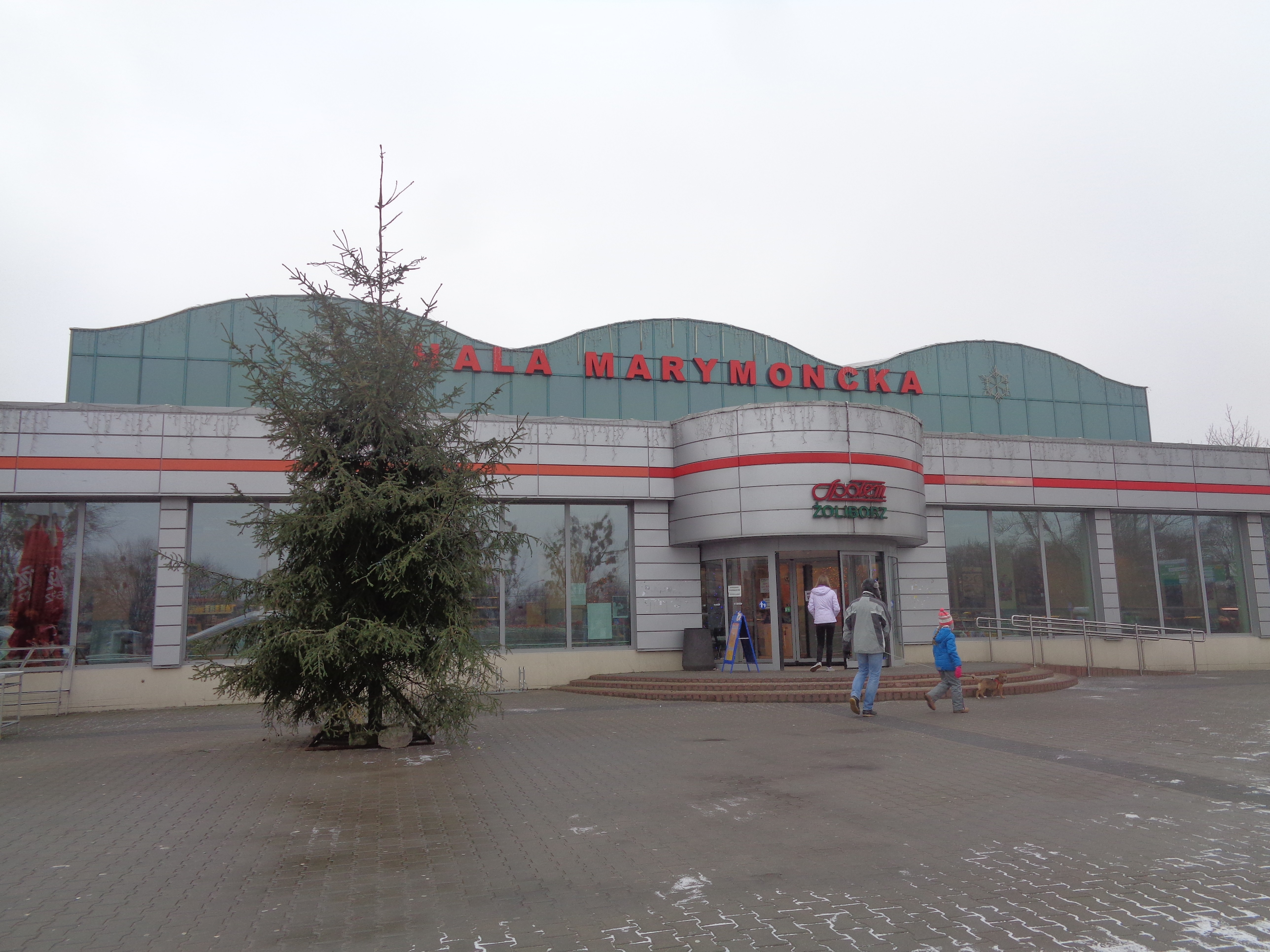 Marymont's Market Hall in Warsaw.